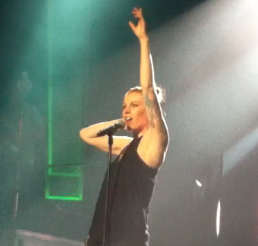 Gabrielle Leithaug during the sound check and a nomination for the Spelleman-price Spellemannprisen in Oslo, 2011